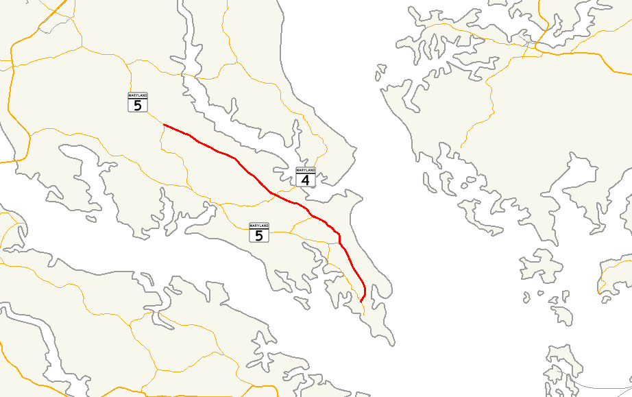 Map of Maryland Route 235